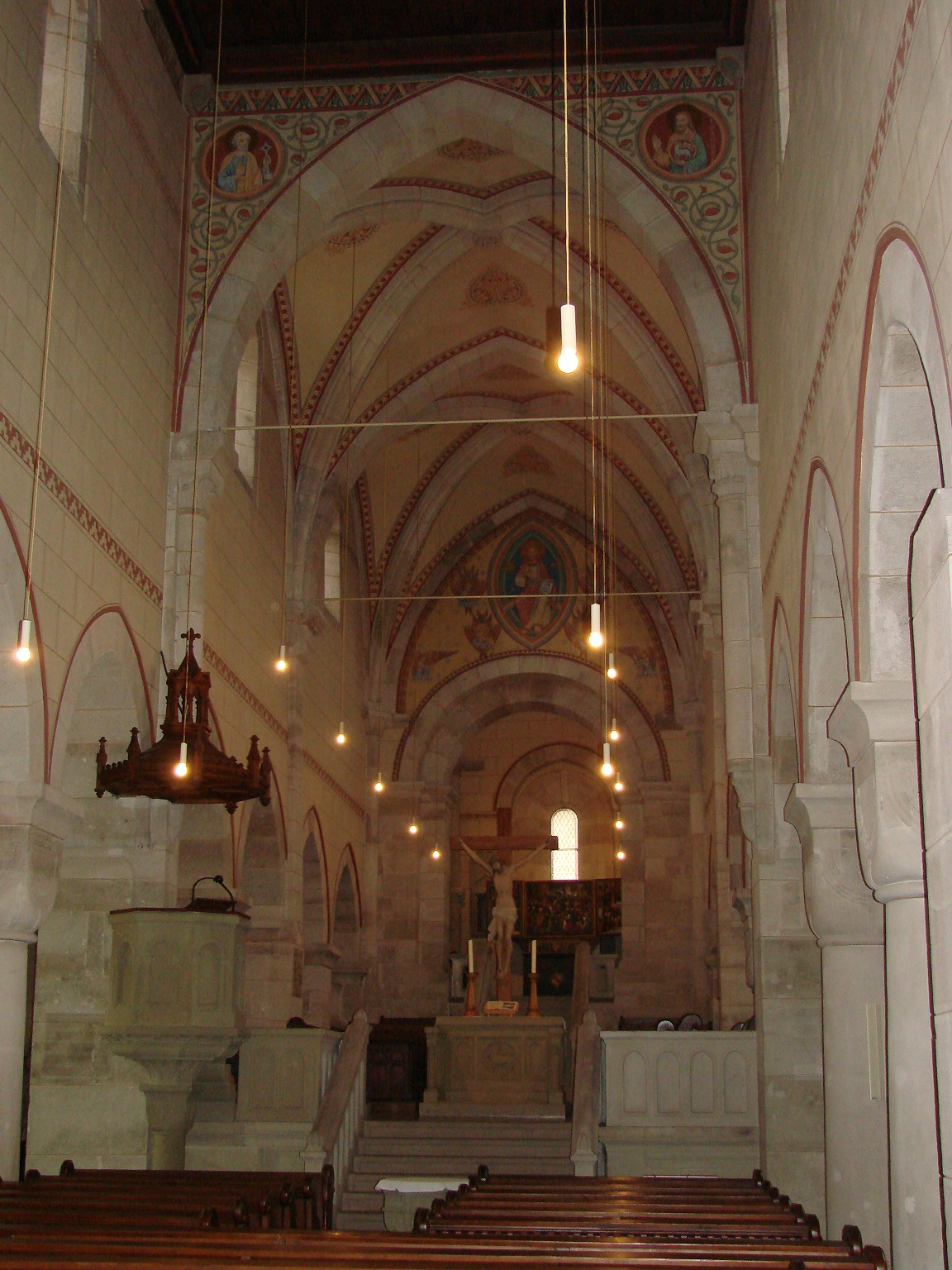 Oberstenfeld, Germany. Interior of Collegiate church St. Johannes, 13th century